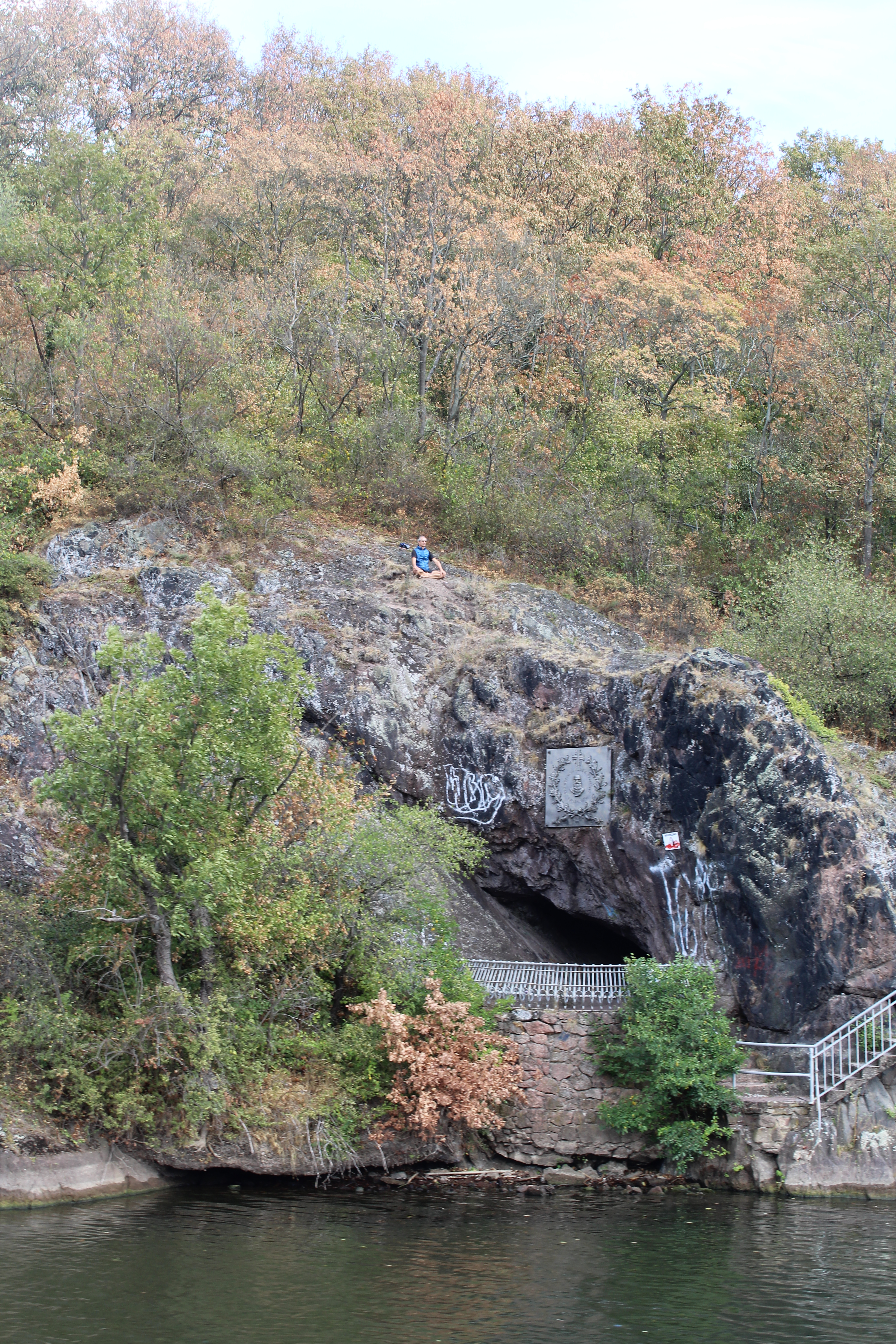 Halle (Saale), view to the Jahn cave